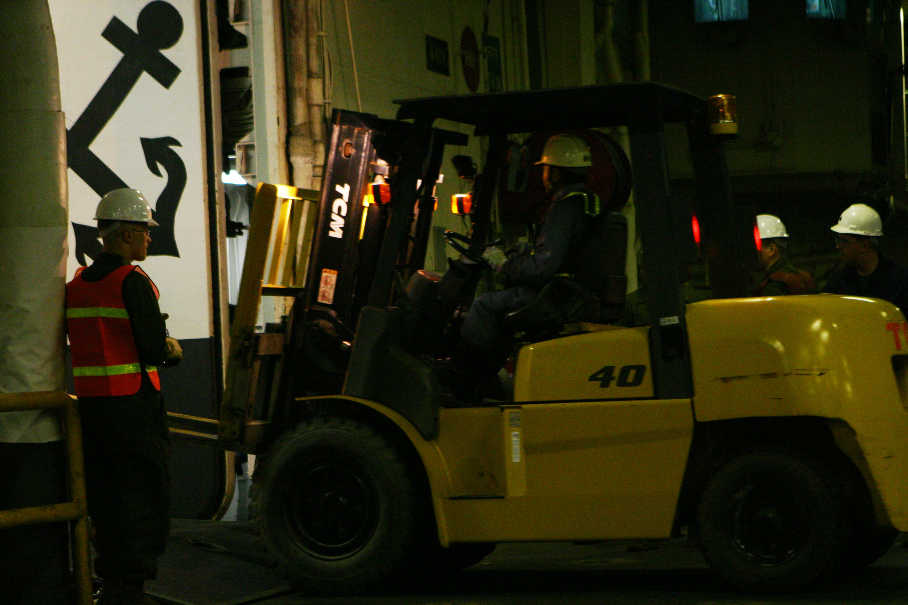 Marines and sailors from the 31st Marine Expeditionary Unit (MEU) and Essex Amphibious Ready Group (ARG) load more than 170 vehicles and 450 tons of equipment onto the forward-deployed amphibious assault ship USS Essex (LHD 2), the forward-deployed transport dock ship USS Denver (LPD 9) and the forward-deployed dock landing ship USS Harpers Ferry (LSD 49). The MEU is scheduled to support Exercise Cobra Gold 2010 (CG ’10) as part of the spring patrol. CG’ 10 is a regularly scheduled joint and coalition multinational exercise hosted annually by the Kingdom of Thailand.